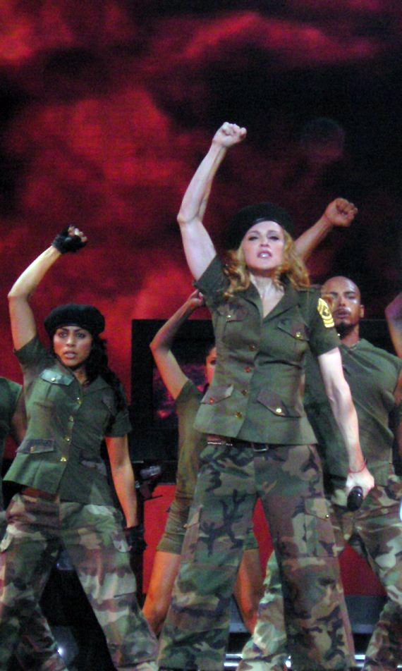 Picture taken at the Manchester concert